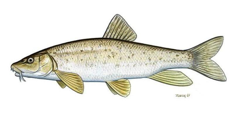 This fish is barbus Barbus petenyi Heckel, 1852 which is subspecies of barbus peloponnesius living in river Tisza and Danube in Hungary